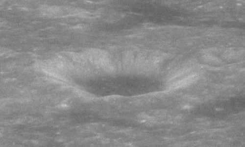 Highly oblique view of Townley, on the moon. Facing west.